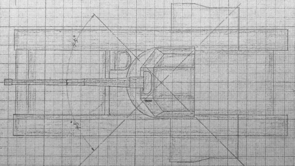 Imperial Japanese Army Experimental 105mm anti-tank self-propelled gun (tank destroyer) Ka-To. A plan illustrating the top view.